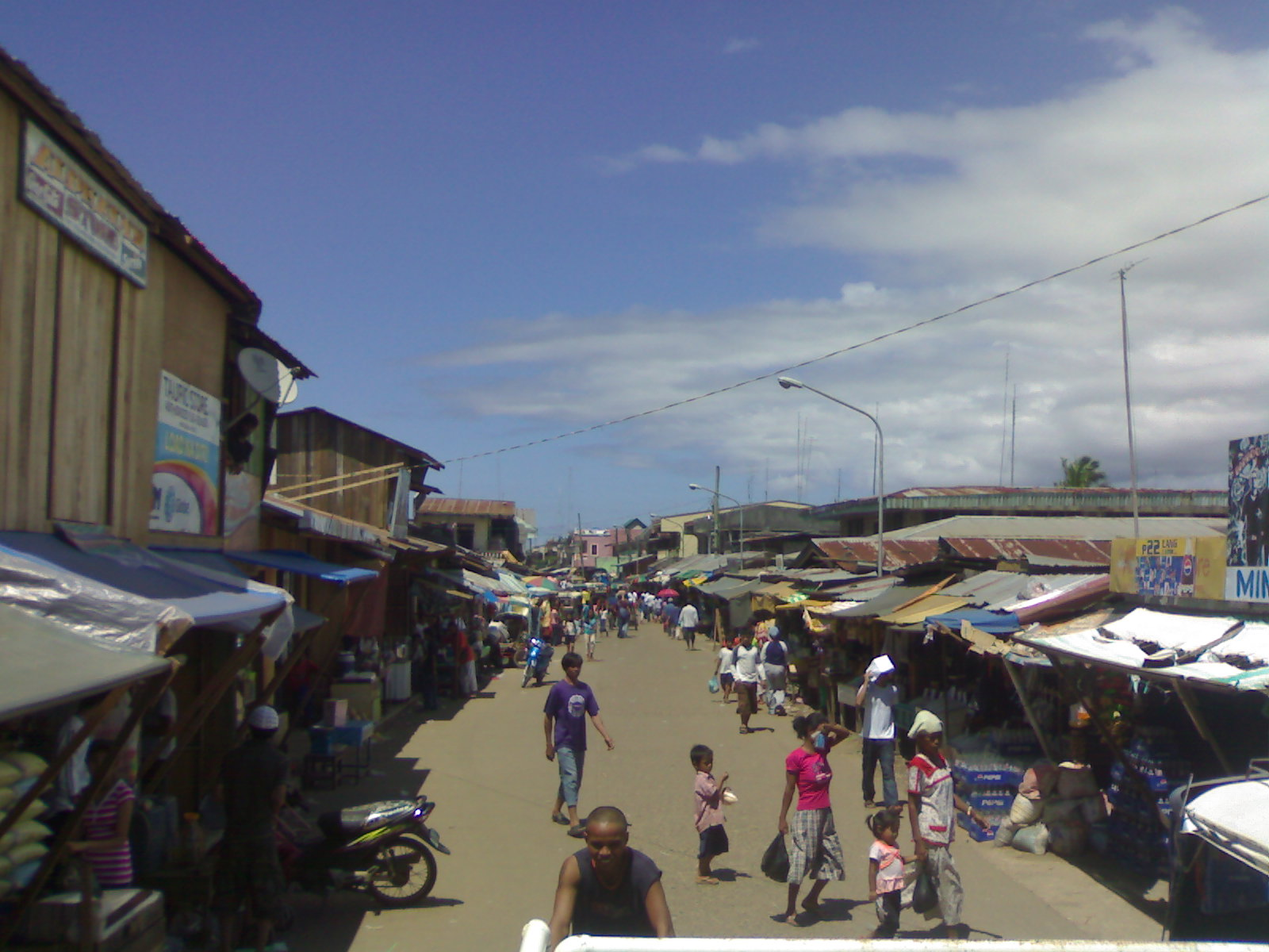 Port Holland, Maluso, Basilan